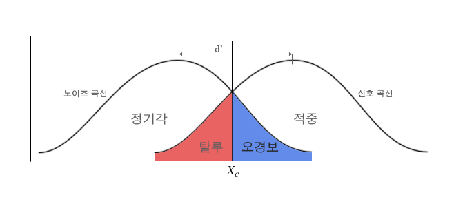 Displaying signal/noise distribution and classifier